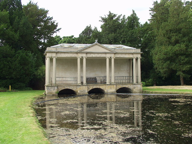 Grounds of Scampston Hall. Bridge/dam wall in the grounds of Scampston Hall